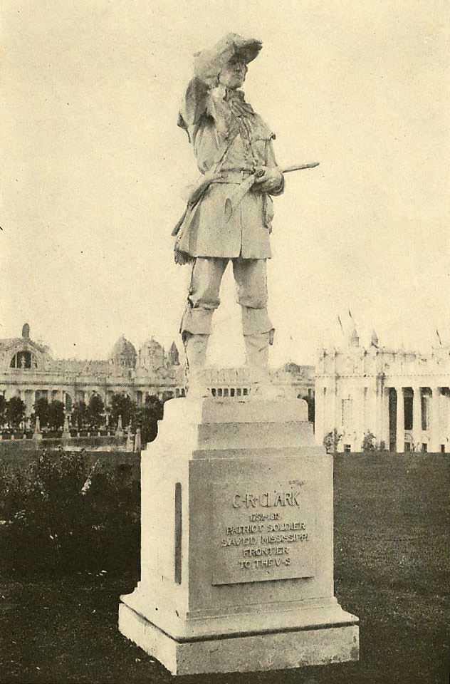 scanned picture from book whose copyright (1904) has expired.